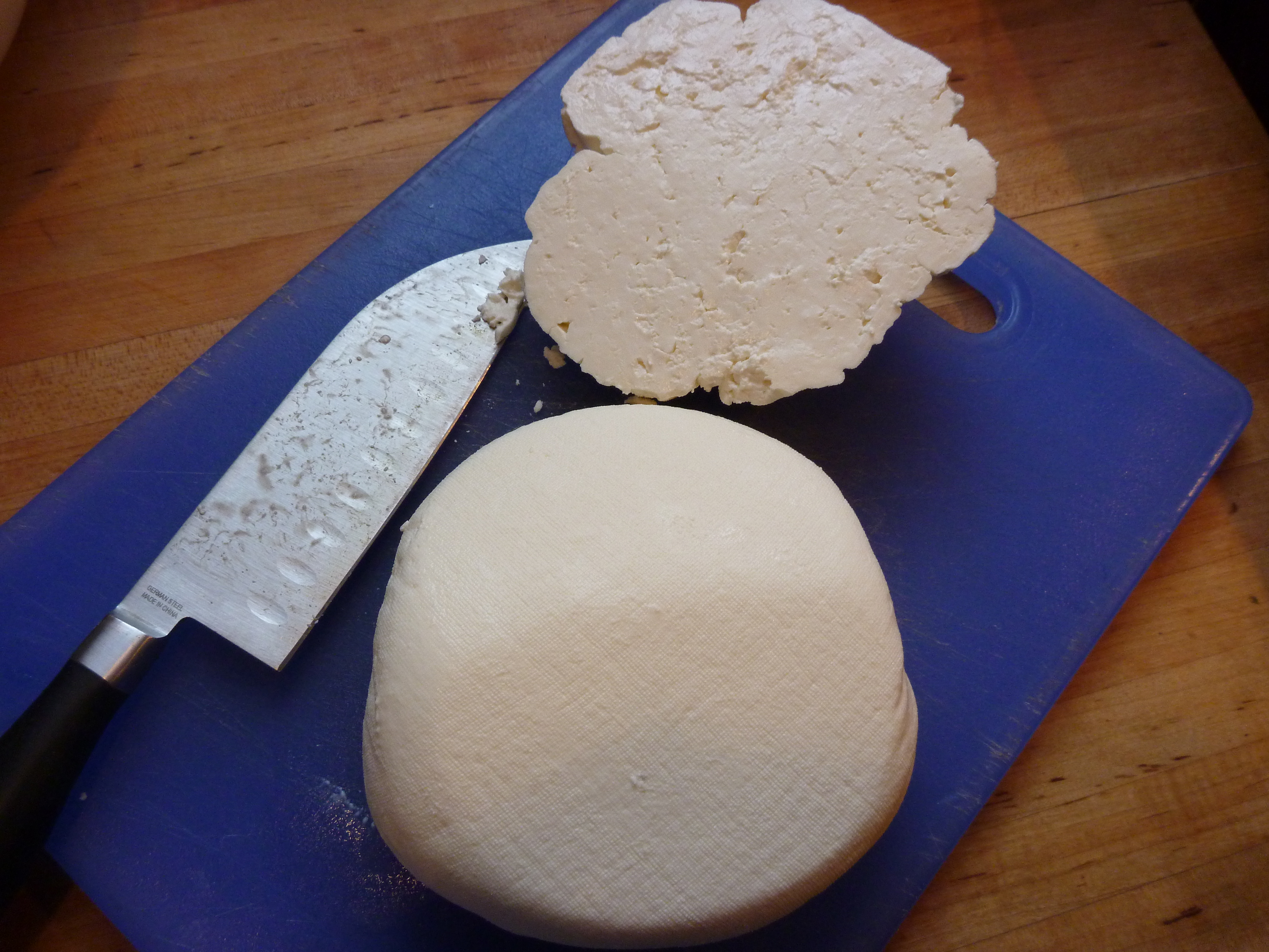 Homemade Mizithra cheese